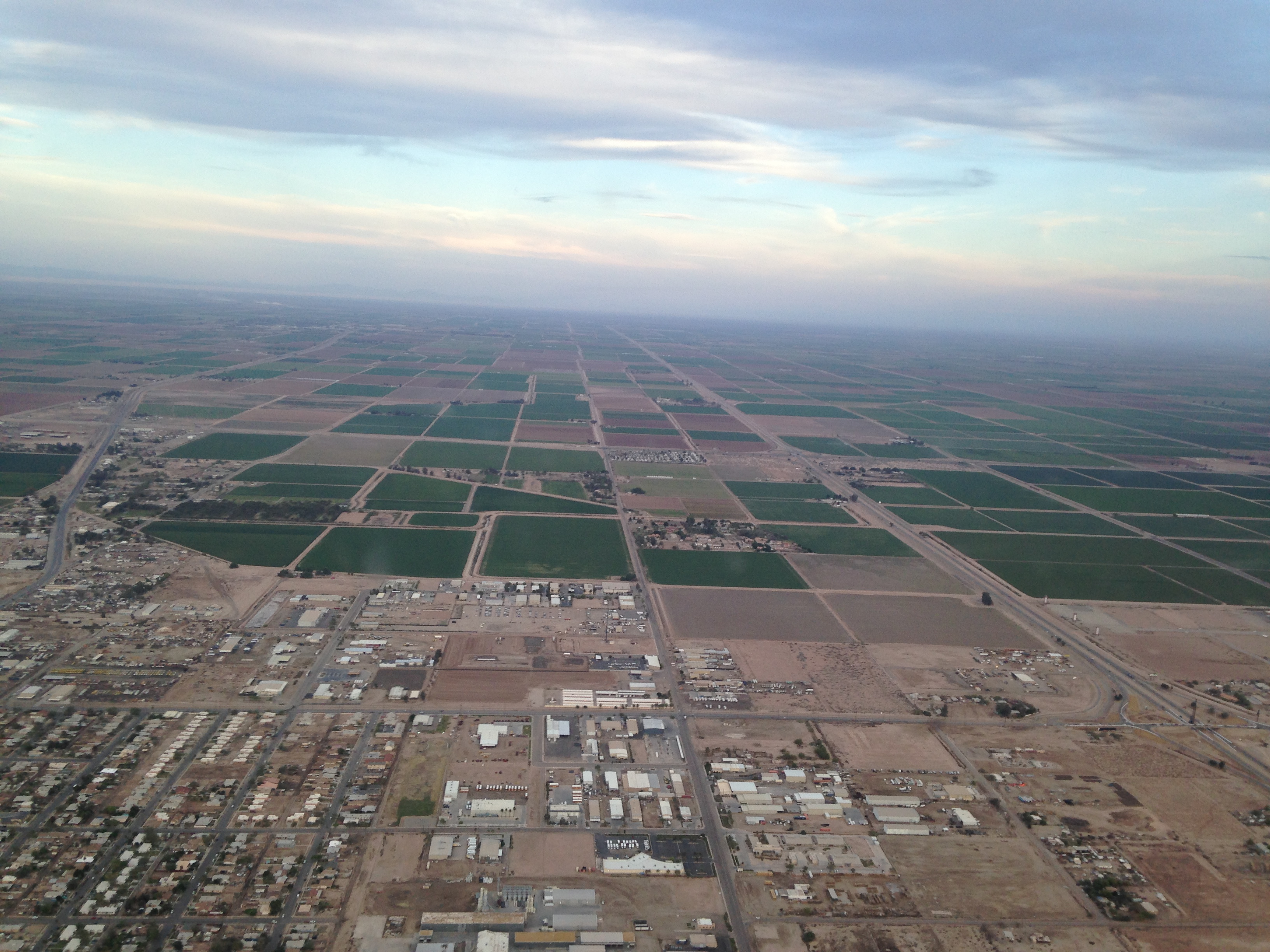 Image of Imperial County